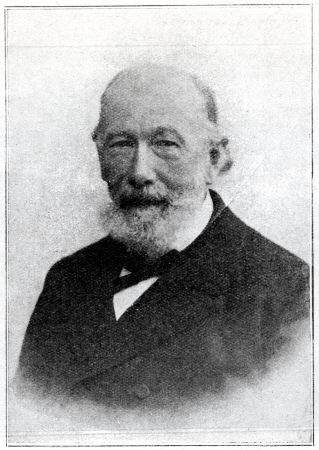 Gustav Klaus (1825-1908): German industrialist